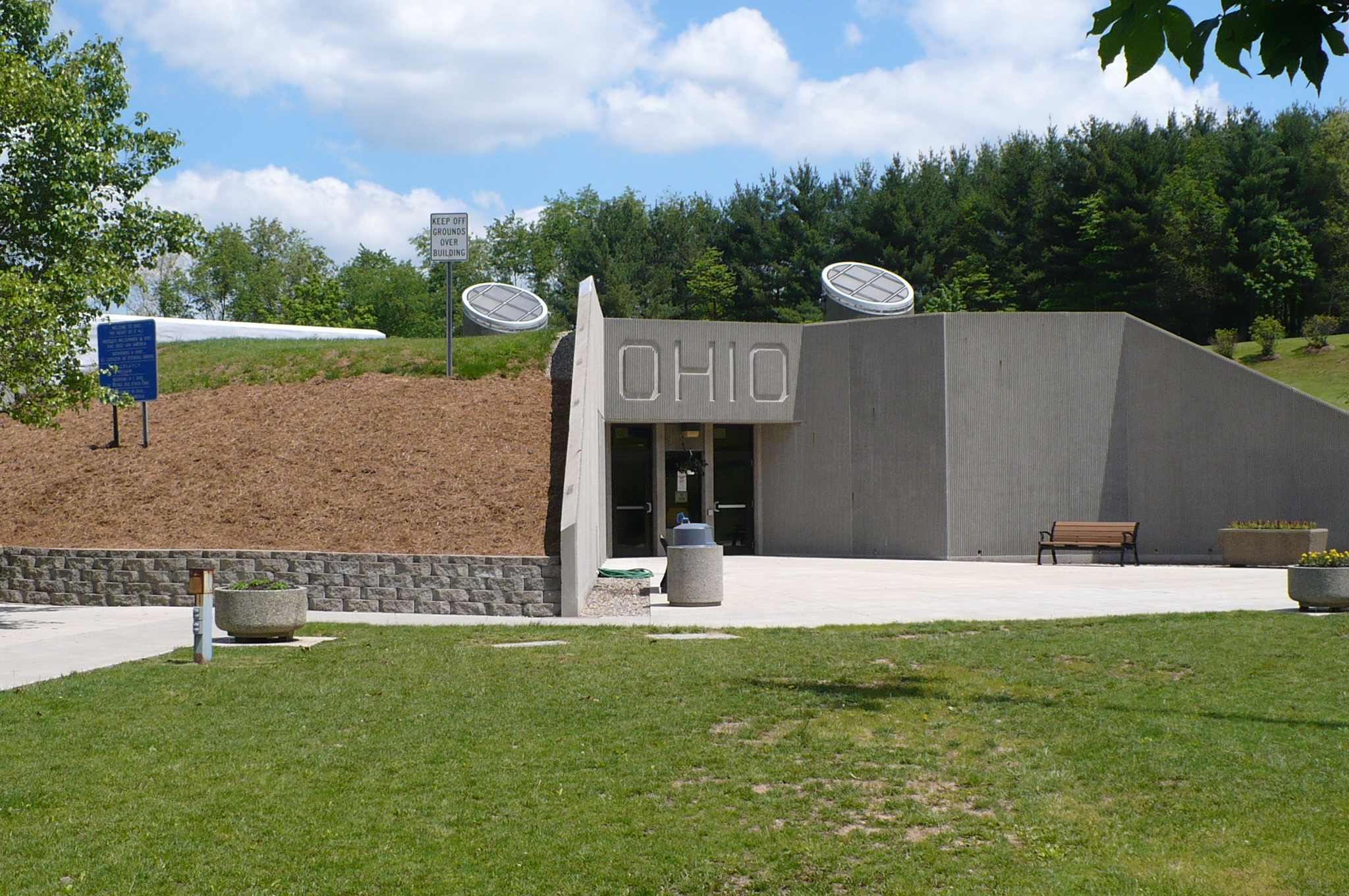 Earth shelter rest area in south-east Ohio, USA